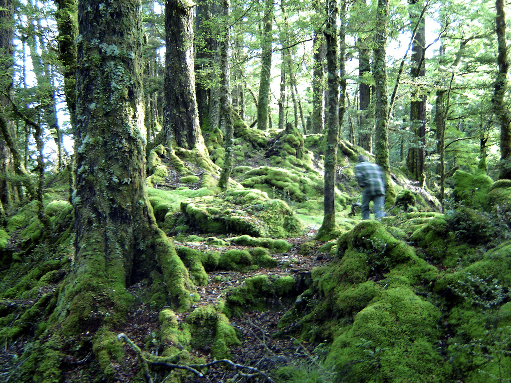 Mount of Moss, close to Te Anau, Fiordland, New Zealand.Mound of moss